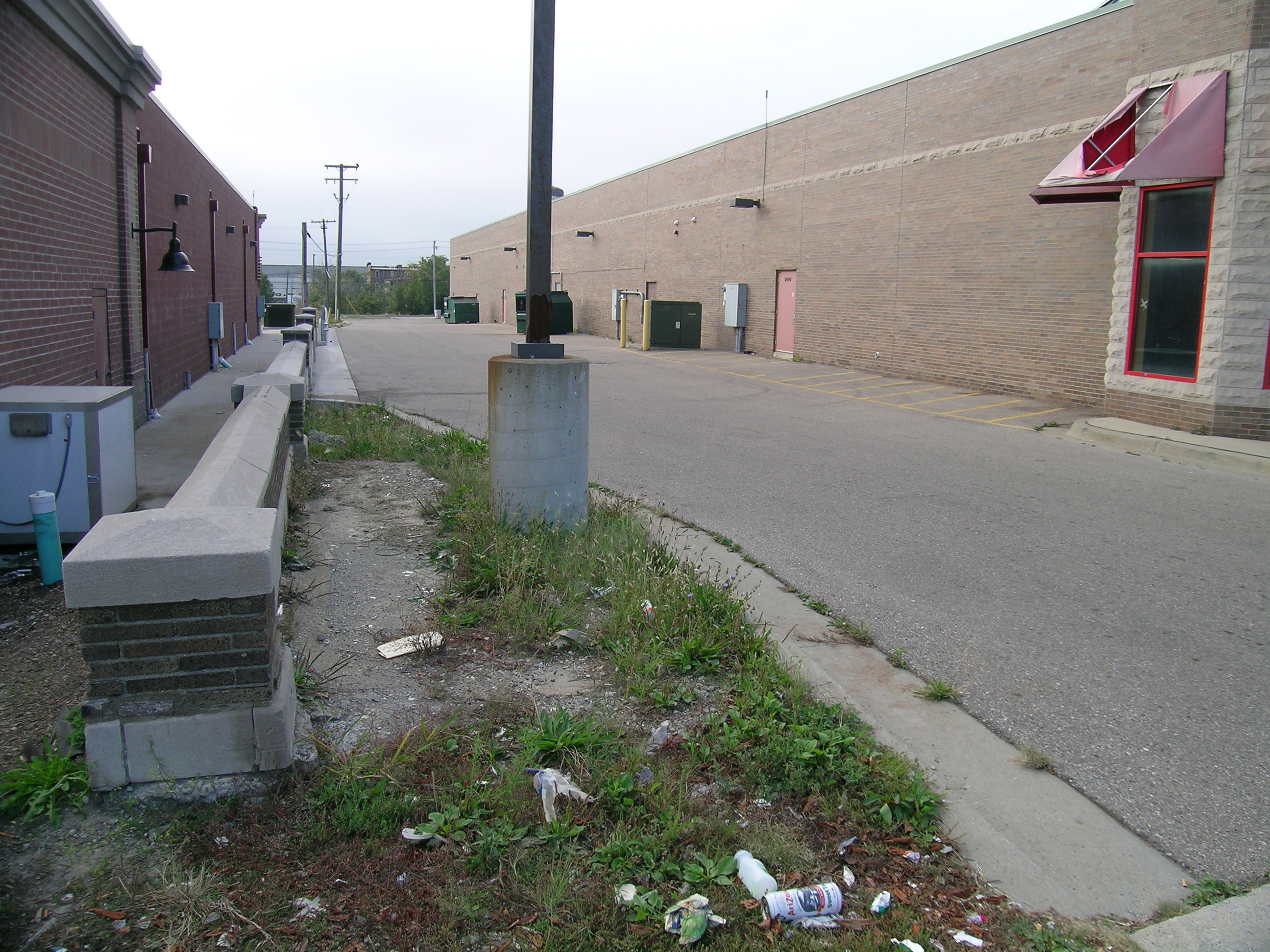 Site of the Franklin H. Walker House in Detroit, MI, now demolished